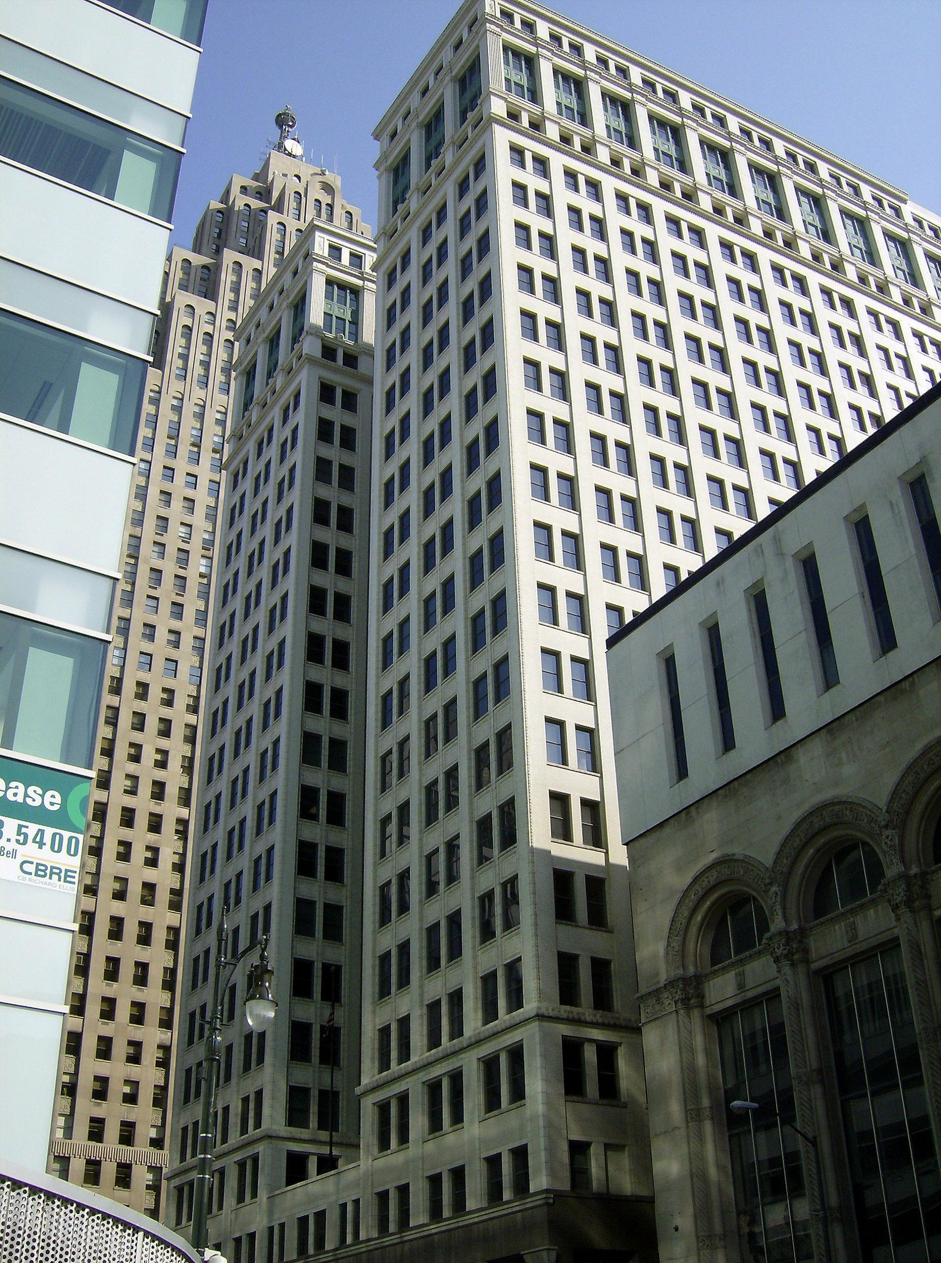 self made